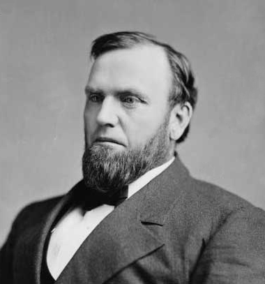 John Quincy Adams Tufts, Iowa comgressman